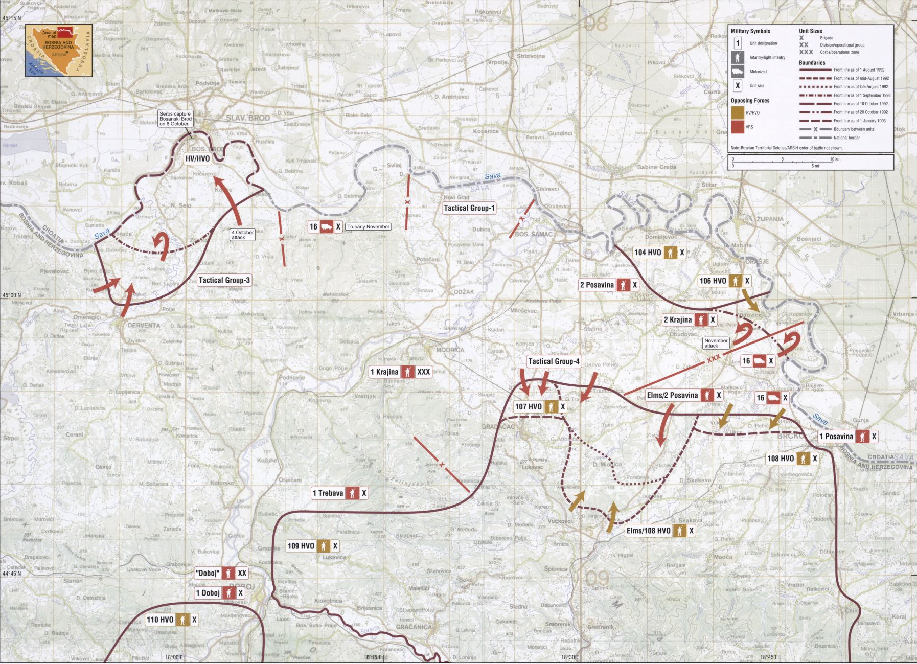 Map of the Posavina Corridor (Operation Corridor 92 of the Army of the Republika Srpska) in August 1992-January 1993. Balkan Battlegrounds Map 11